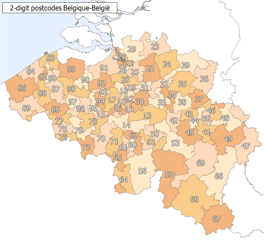 2-digit postcodes in Belgium: postcode areas, described through the first two digits of the Belgian postcode system.